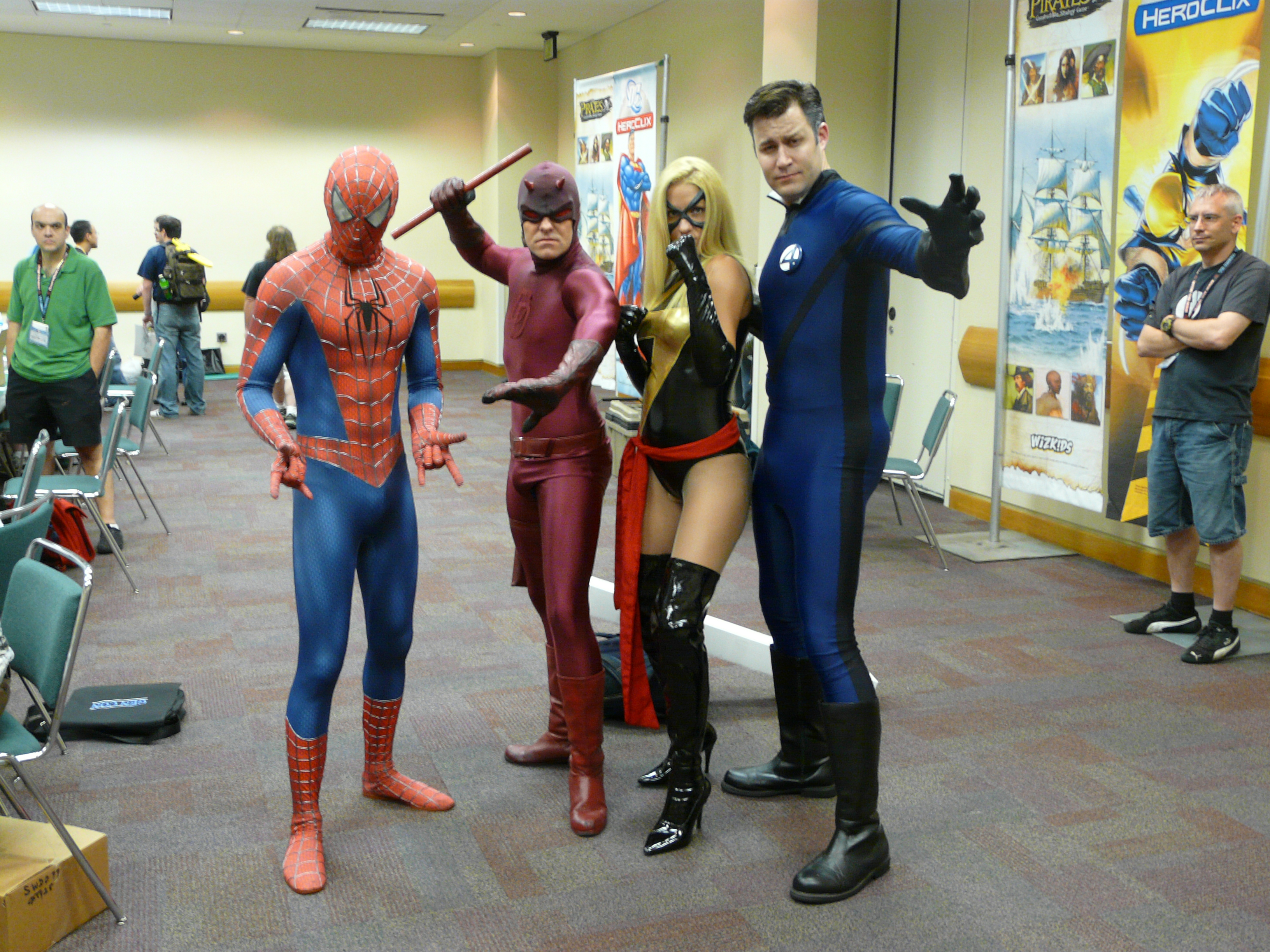 Picture of Gen Con Indy 2008 in Indianapolis, Indiana, USA.